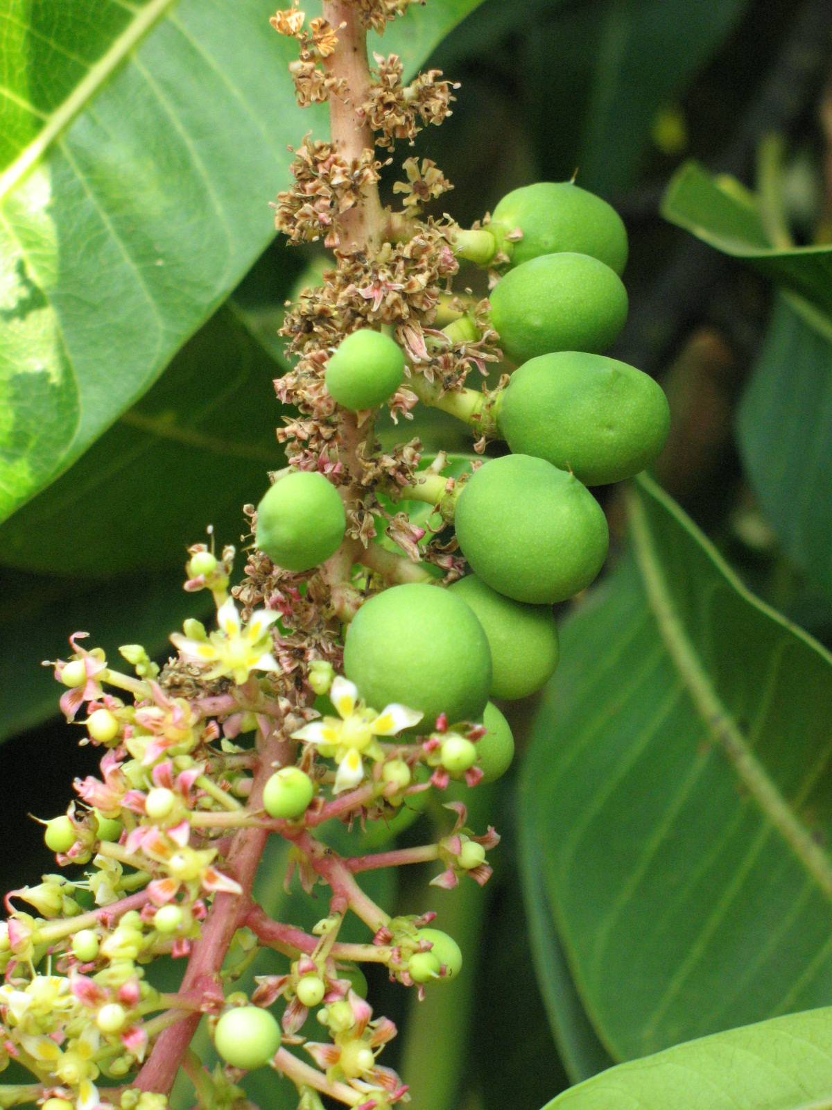 Close-up of a twig of Alphonso mango tree carrying flowers and immature fruit. The photo was taken at Deogad (or Devgad), Maharashtra, India